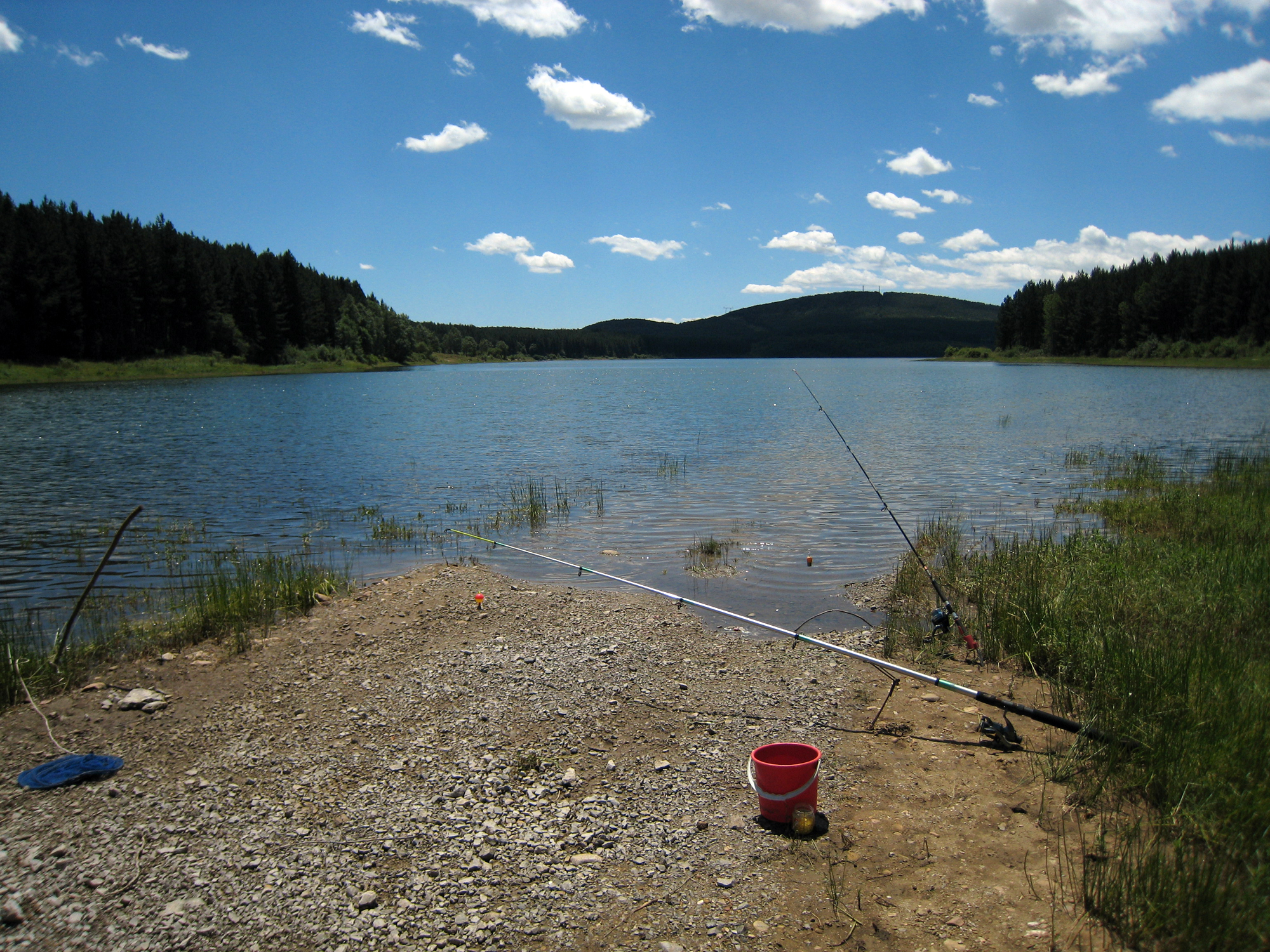 Studena Dam